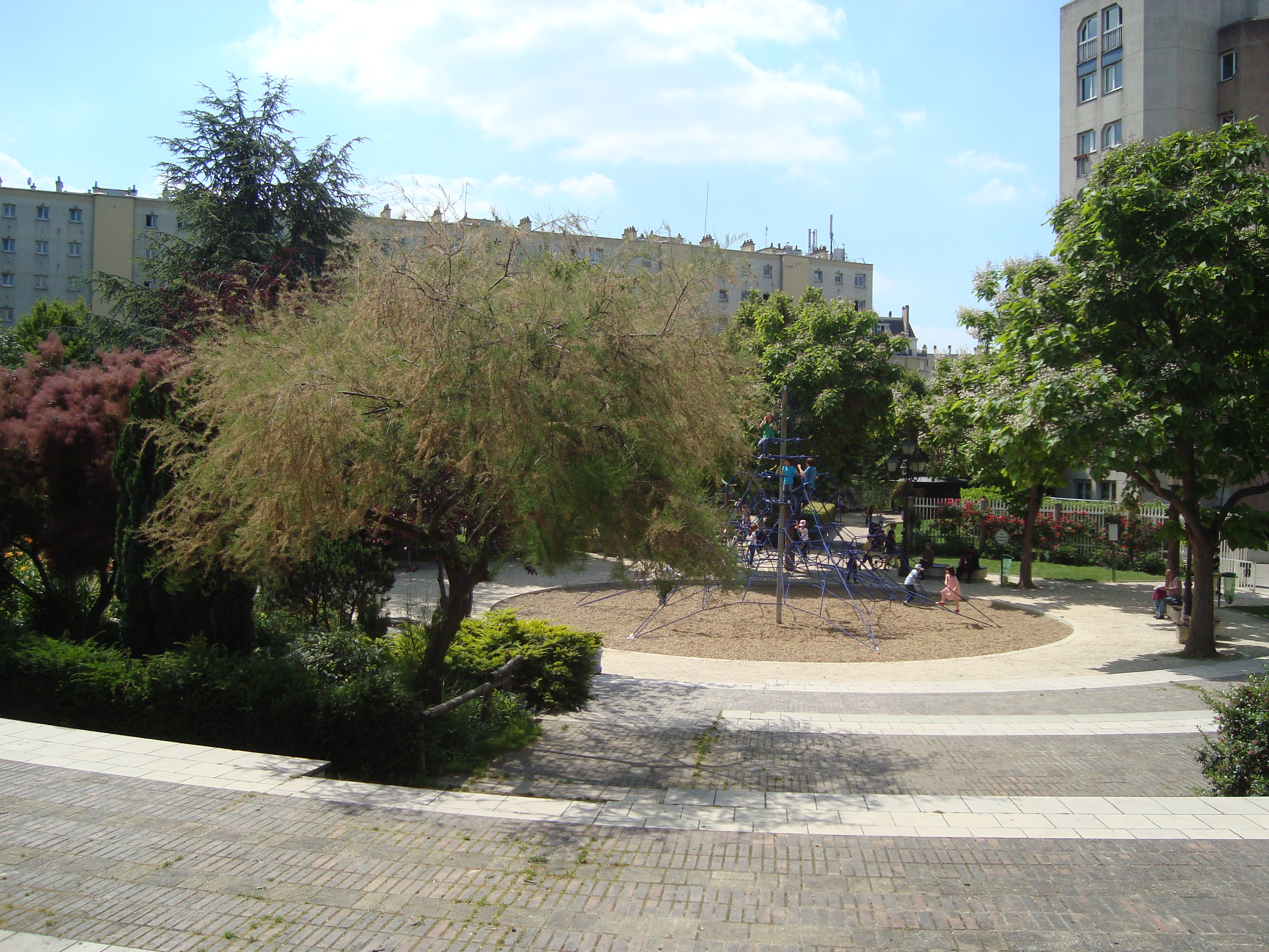 View of the square Charles-Péguy in Paris